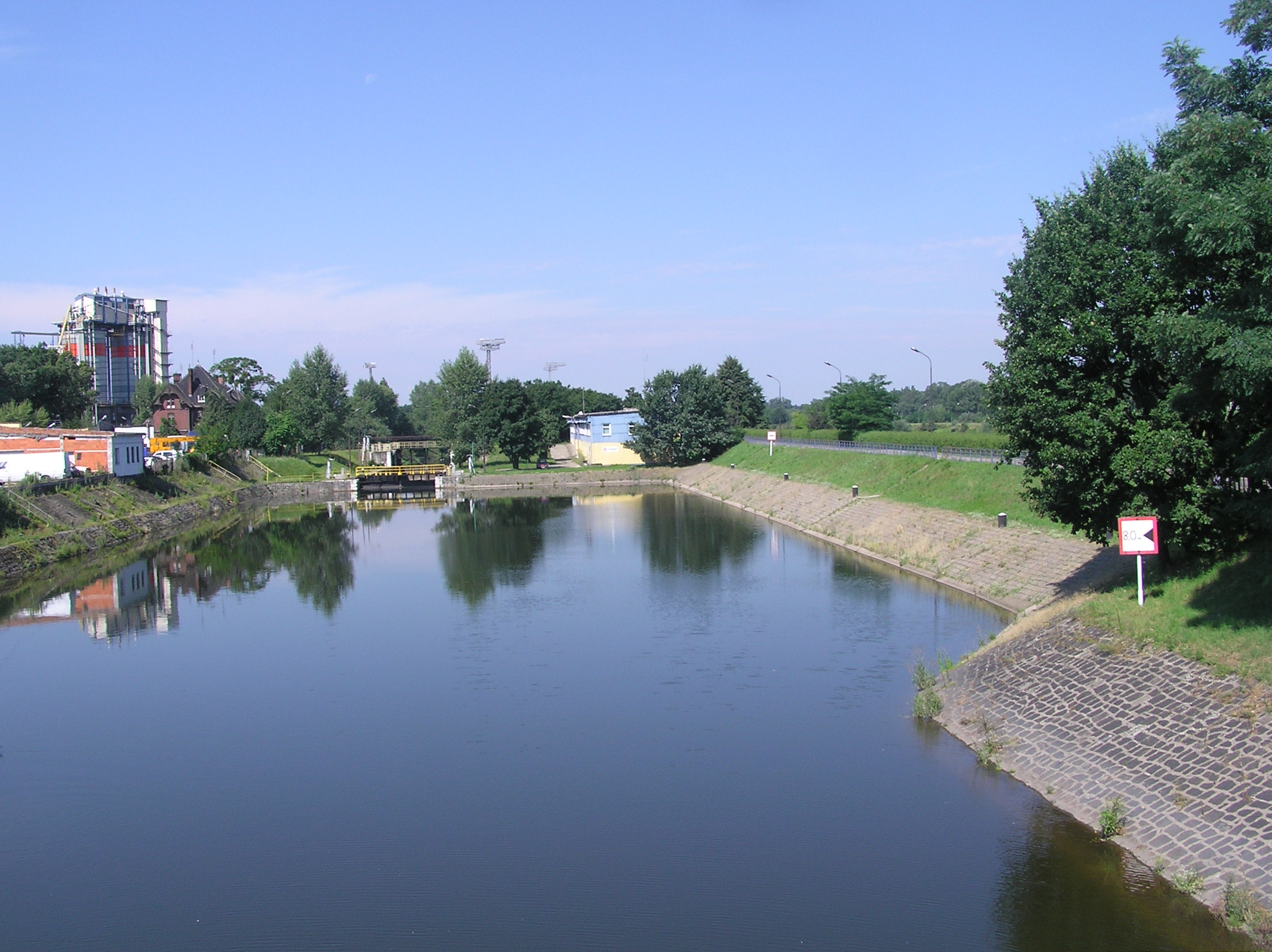 Wrocław, Oder River, trail side Oder waterway (european waterway E-30), Miejski Canal, Miejska Lock